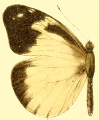 Plate from The Macrolepidoptera of the World. Vol. 5. Pieridae Dismorphiinae: Dismorphia lewyi